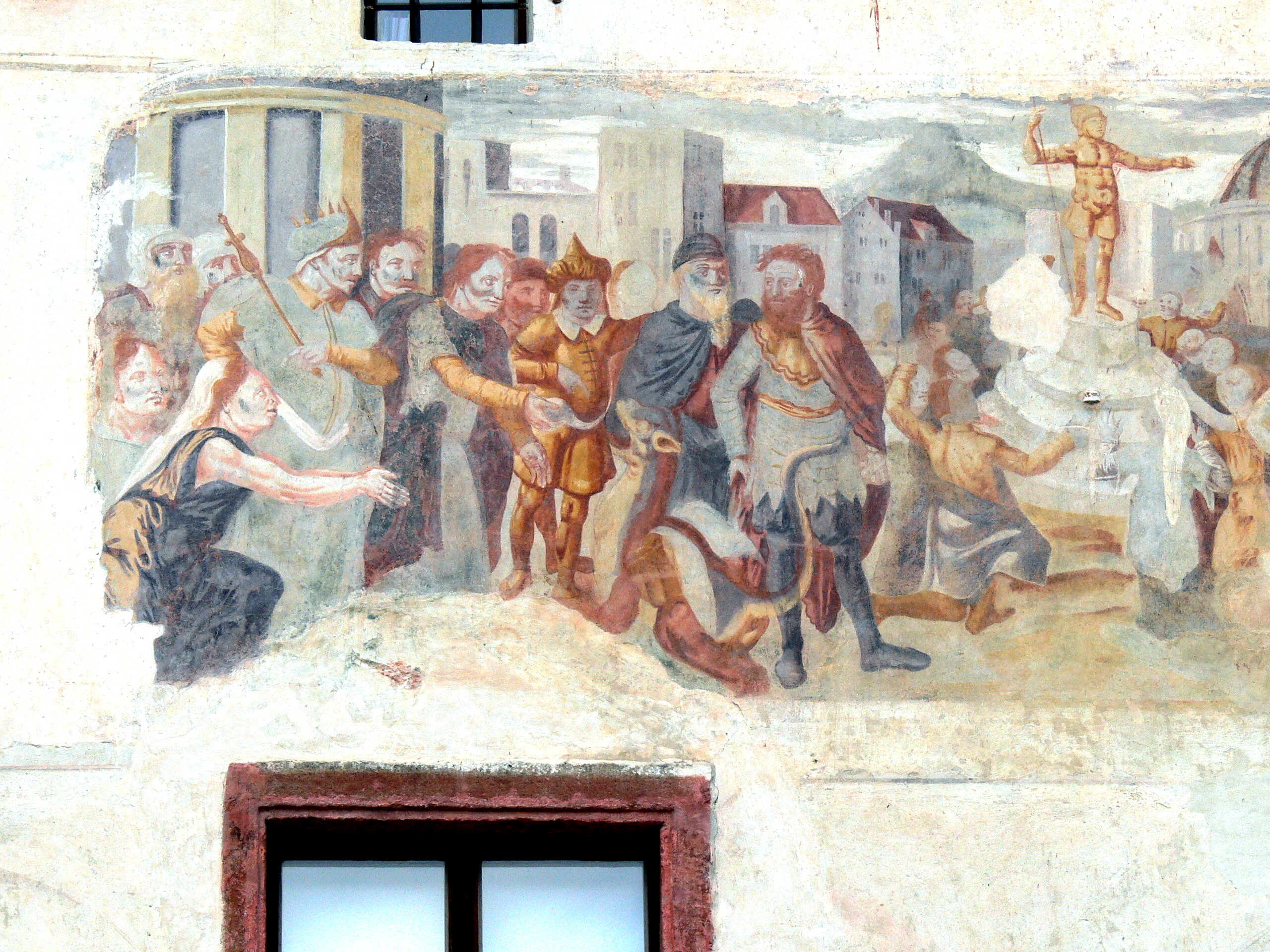 Parz castle ( Upper Austria ). Frescos ( 1580 ) at the facade - Scenes of the Book of Daniel: Daniel is killing a holy dragon by feeding him poisoned bread, proving the dragon is no god.